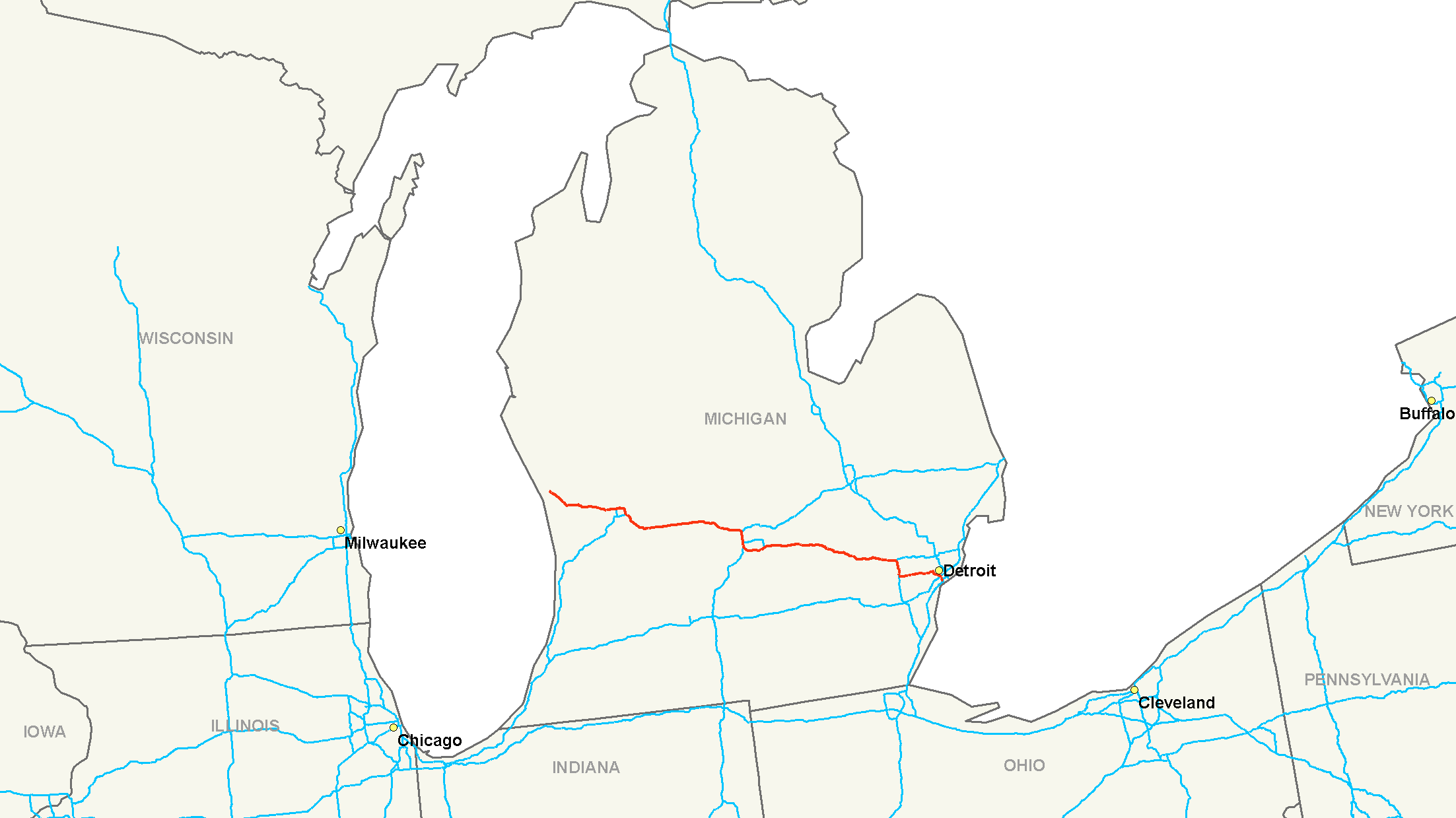 Map of Interstate 96